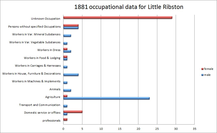 Using the vision of Britain 1881 occupational census data, created a graph showing male and female employment in Little Ribston, North Yorkshire.